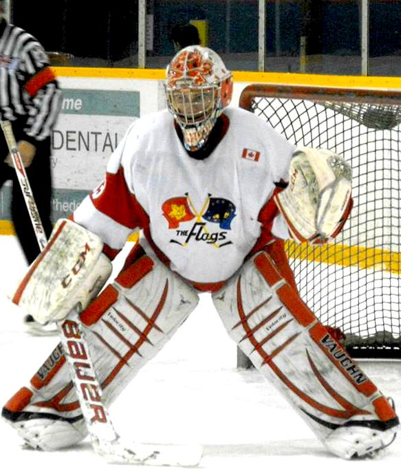 These images of GLJHL action during the 2013-14 season are taken by Devan Mighton.